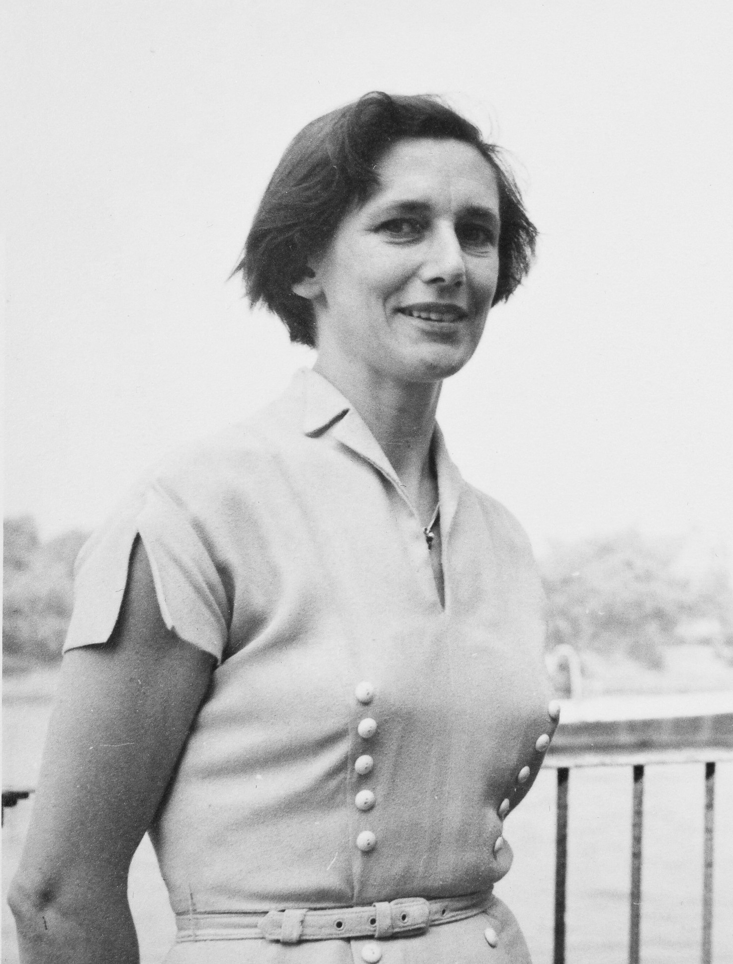 Ruth Sanger, Photograph taken on the banks of the Thames in Chelsea, near the HQ of the MRC Blood Group Unit.